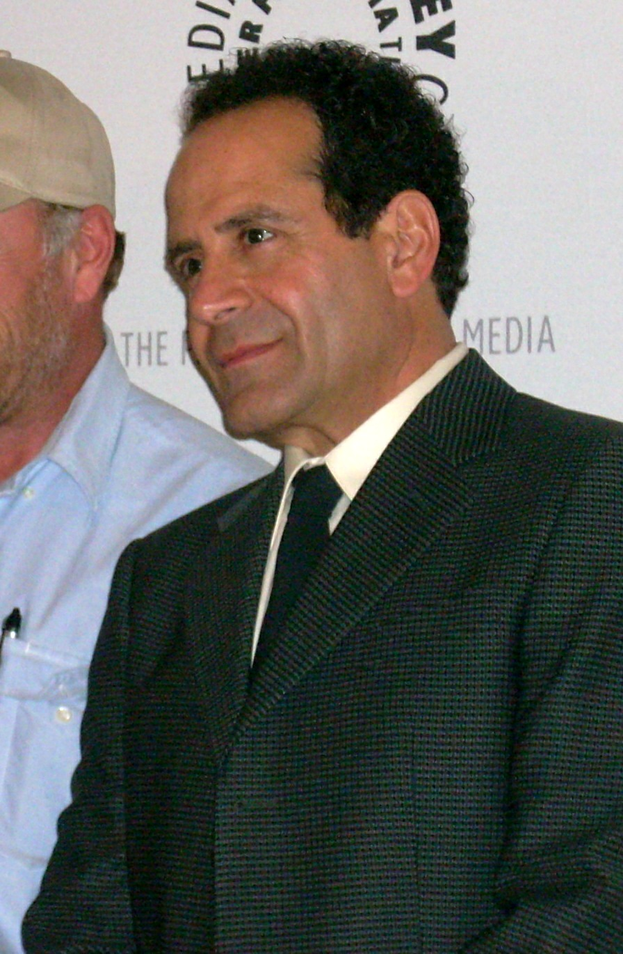 "Monk: 100 Episodes and Counting..." - Paley Center for Media, Dec. 2, 2008